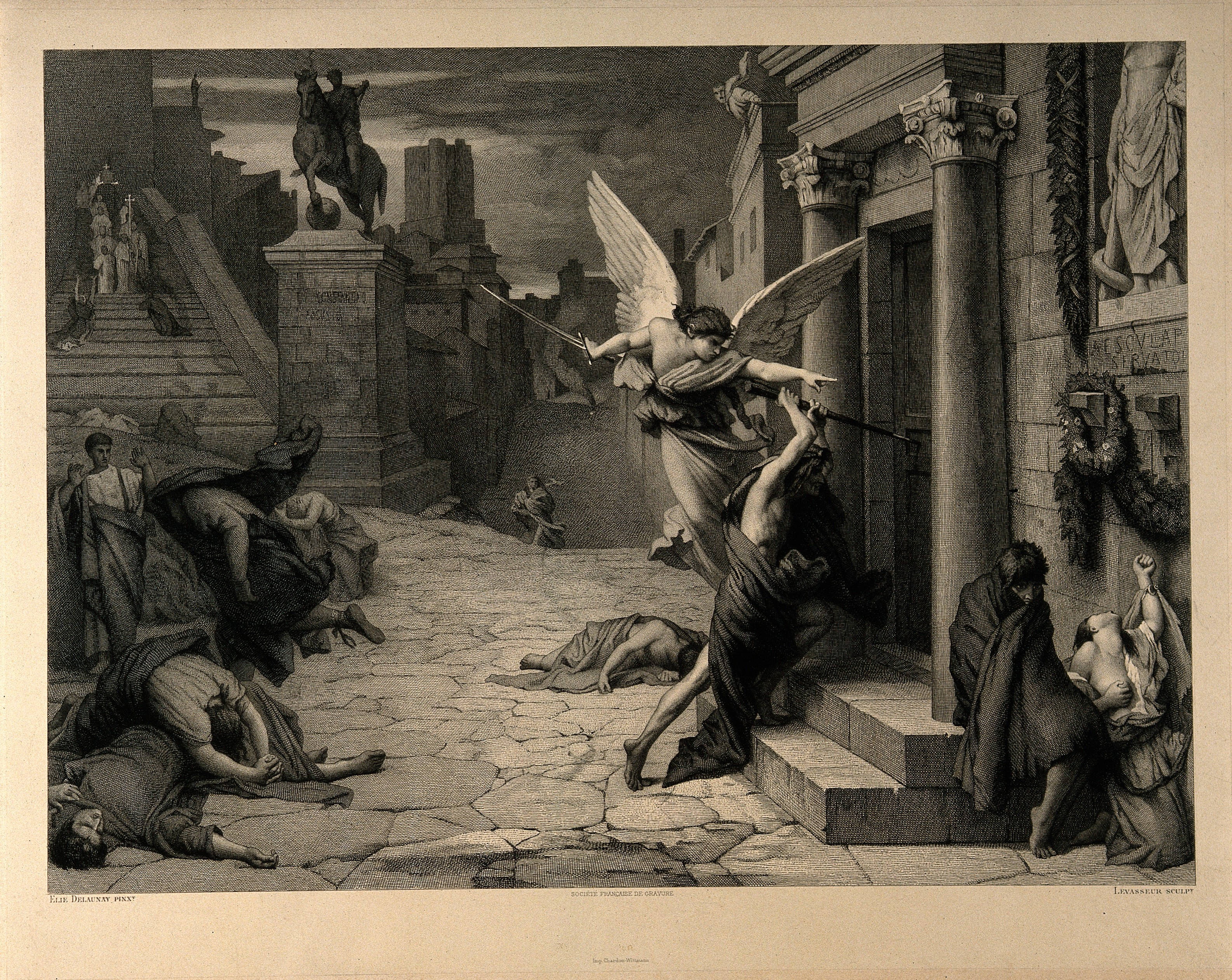 The angel of death striking a door during the plague of Rome. Engraving by Levasseur after J. Delaunay. Iconographic Collections Keywords: Epidemics; EPIDEMIC; Rome; Plague; Jules-Elie Delaunay; Aesculapius; Levasseur